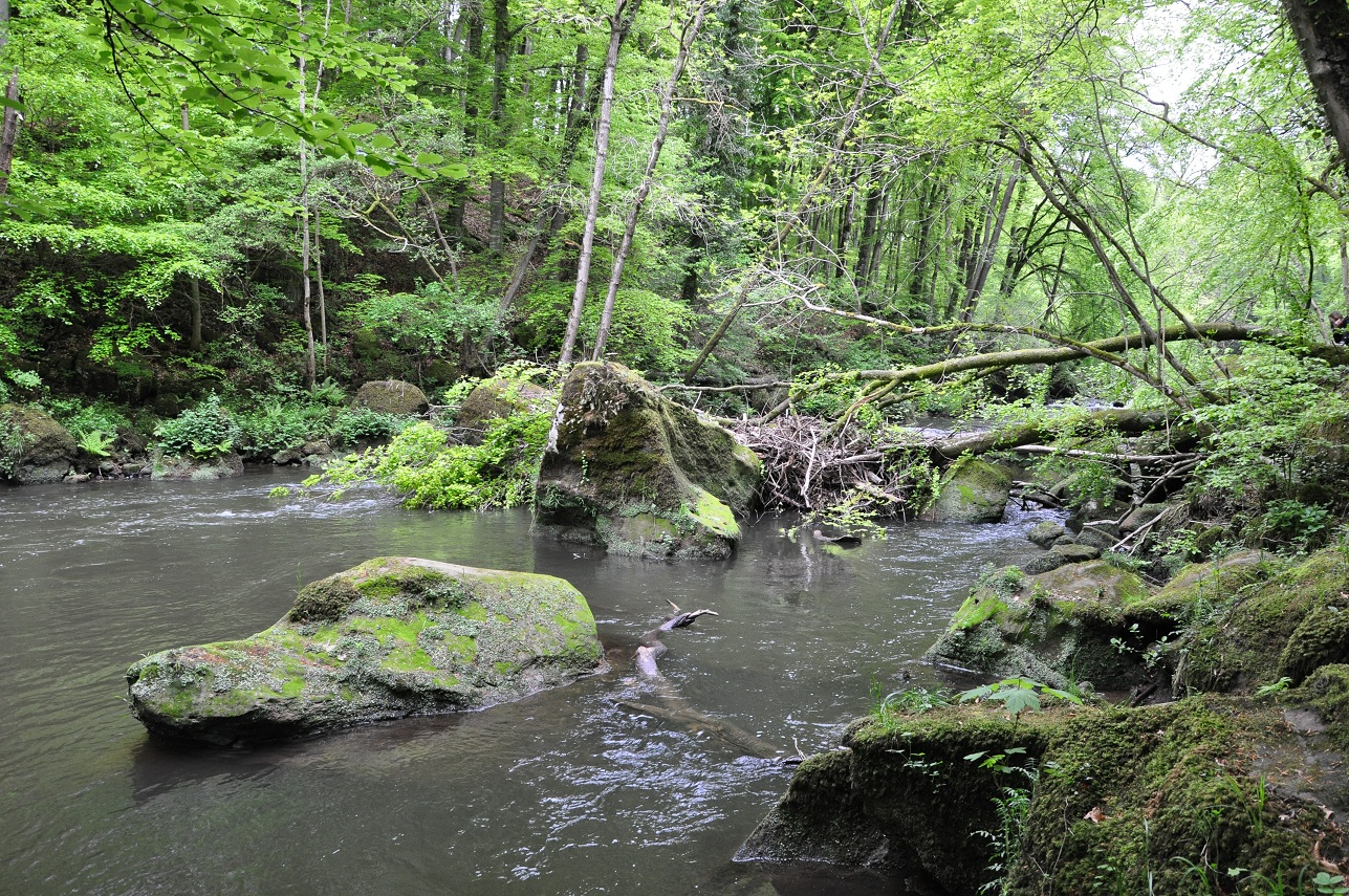 The river Prüm between Prümzurlay and Irrel, Rhineland-Palatinate, Germany.JPG